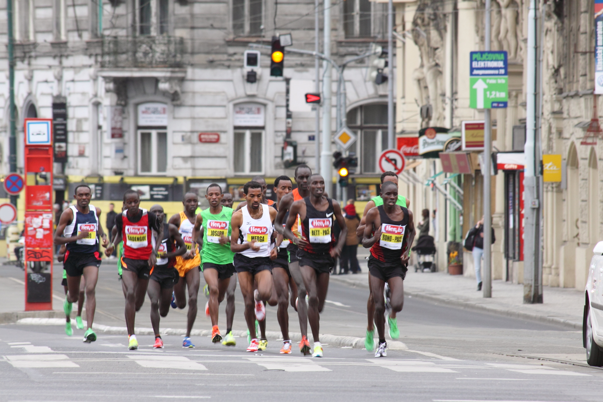 Leading men at ~1.6 km during Hervis Prague Half Marathon 2012 #13 Berhanu Diro ETH 01:06:46 #15 Lotiang Gadengoi KEN 01:02:33 #17 Daniel Kinyua Wanjiru KEN 01:02:31 #5 Fabiano Joseph TAN 01:02:33 #12 Sentayehu Merga 01:01:02 #32 Josphat Bett (pacemaker) KEN 01:01:01 #31 Vincent Rono (pacemaker) KEN (DNF, 00:13:59 @ 5 km)